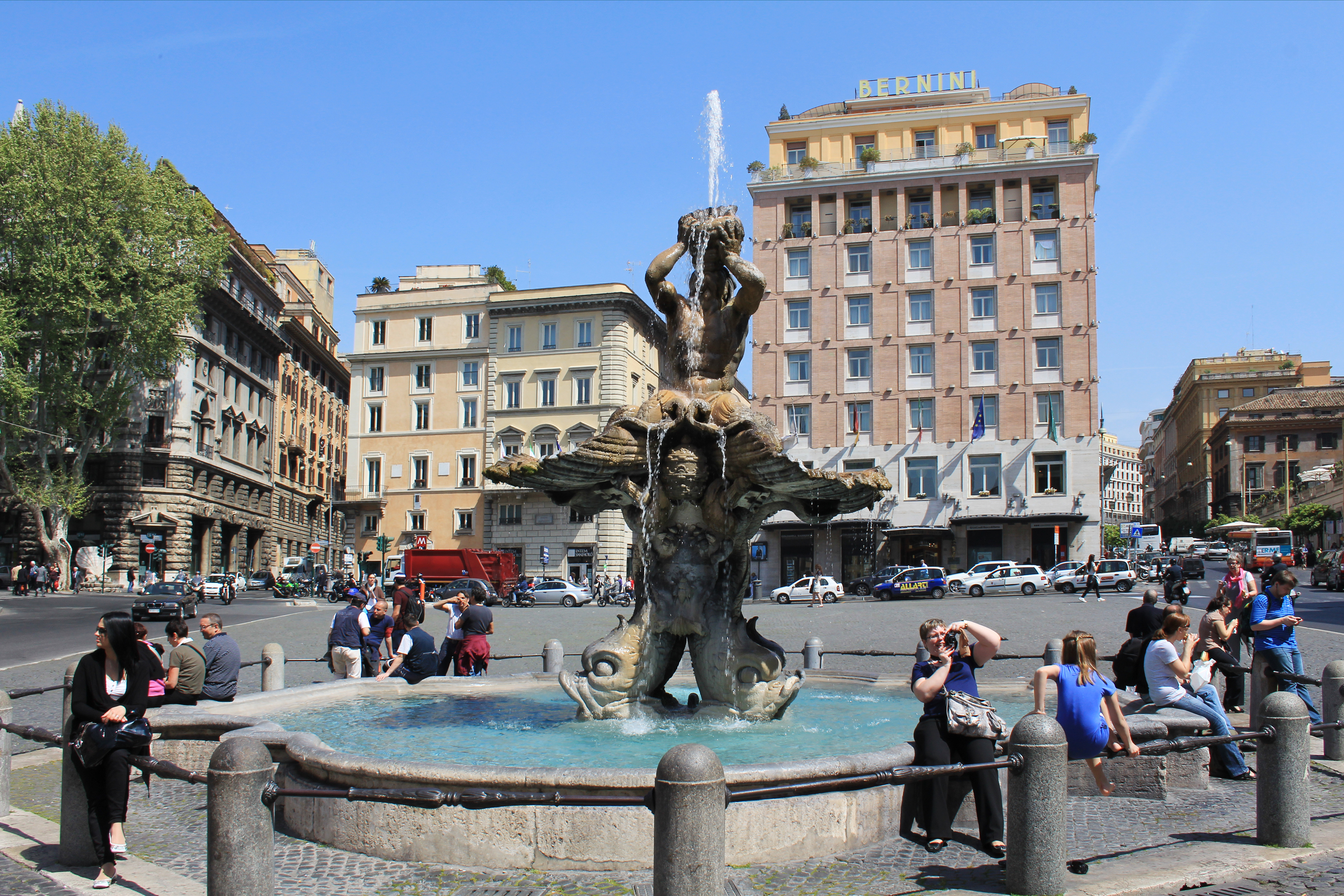 Triton Fountain on Piazza Barberini, Rome, Italy